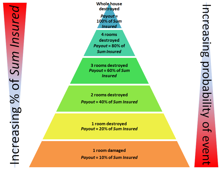 Illustration of condition of averages when applied to a house flood or fire. The percentage bands are there purely to show the principle and would not necessarily follow the assessment of a loss adjuster.